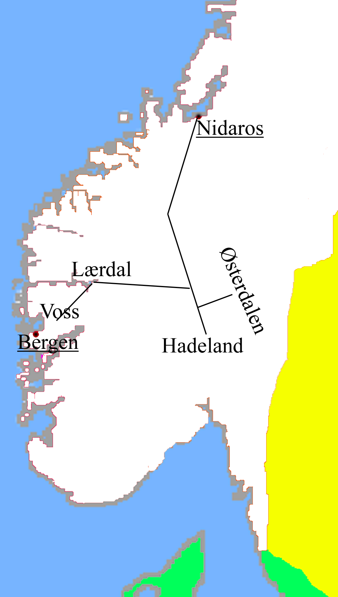 King Sverre of Norway's journey across the mountains to Voss and back again, late summer/fall 1177.